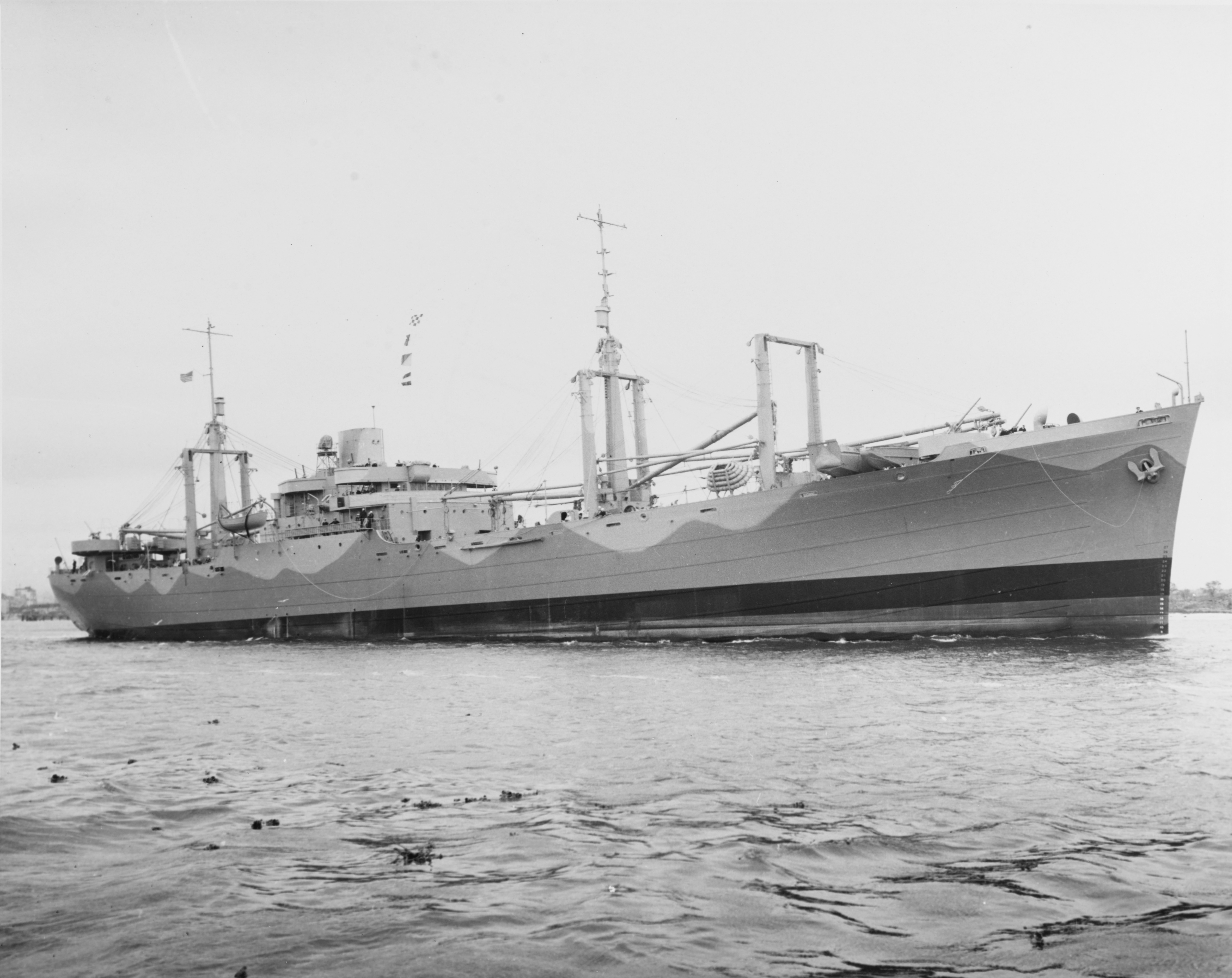 The U.S. Navy cargo ship USS Bellatrix (AK-20) off Tampa, Florida (USA), circa March 1942. She is painted in camouflage Measure 12 (Modified). Photograph from the Bureau of Ships Collection in the U.S. National Archives.